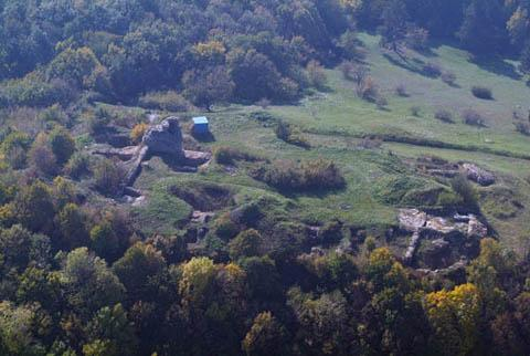 Hornstein, Austria, aerialphotography